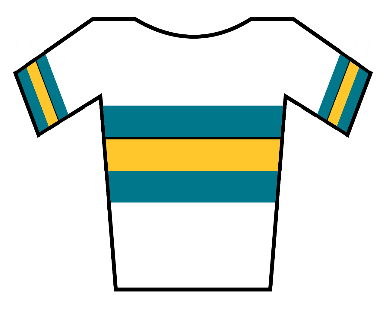 National champion cycling jersey of the Bahama's